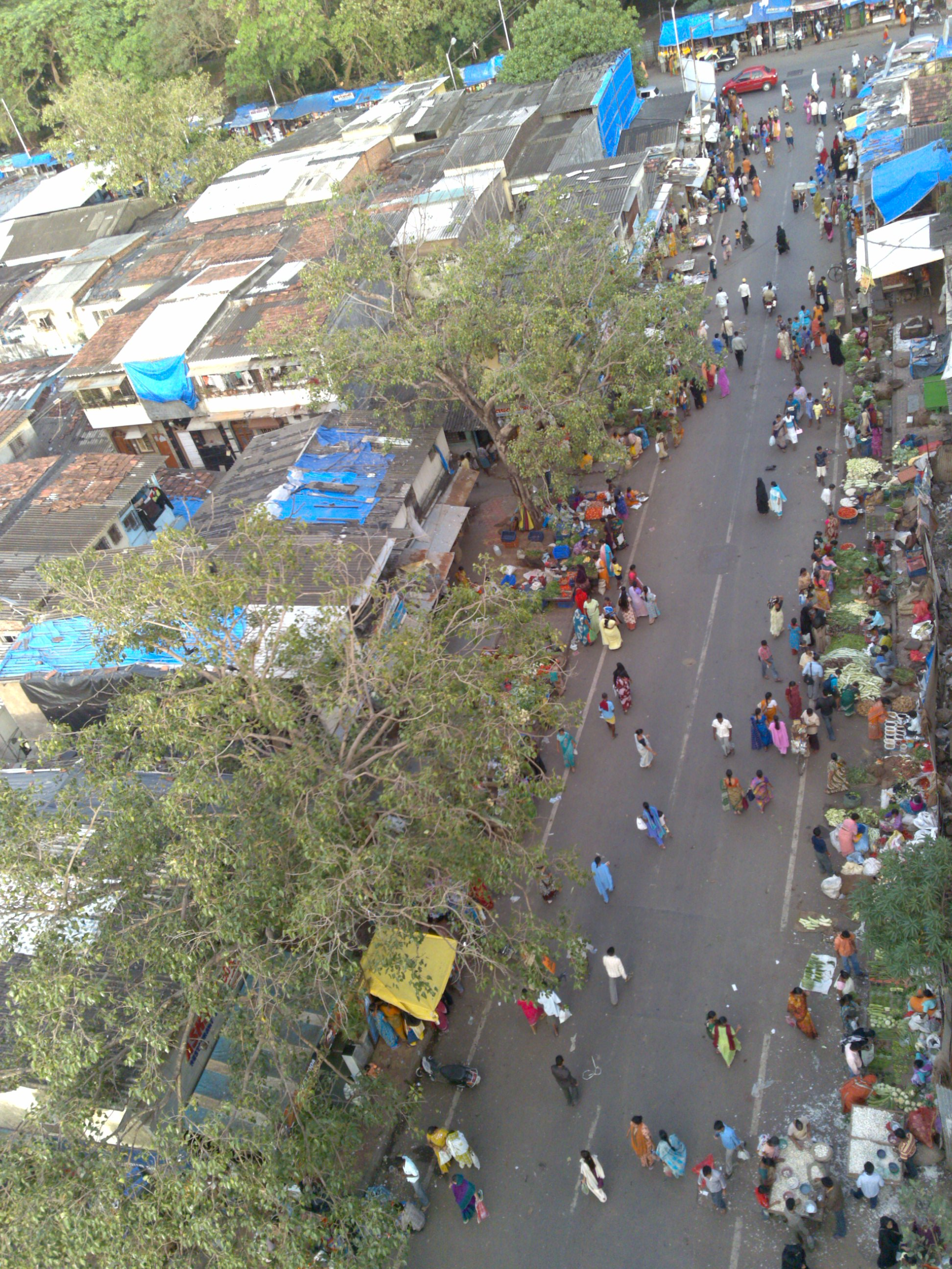 Inside the Dharavi slum in Mumbai, India The main road that divides through Dharavi, with produce market and street retail. Behind street retail are more formal retail shops.